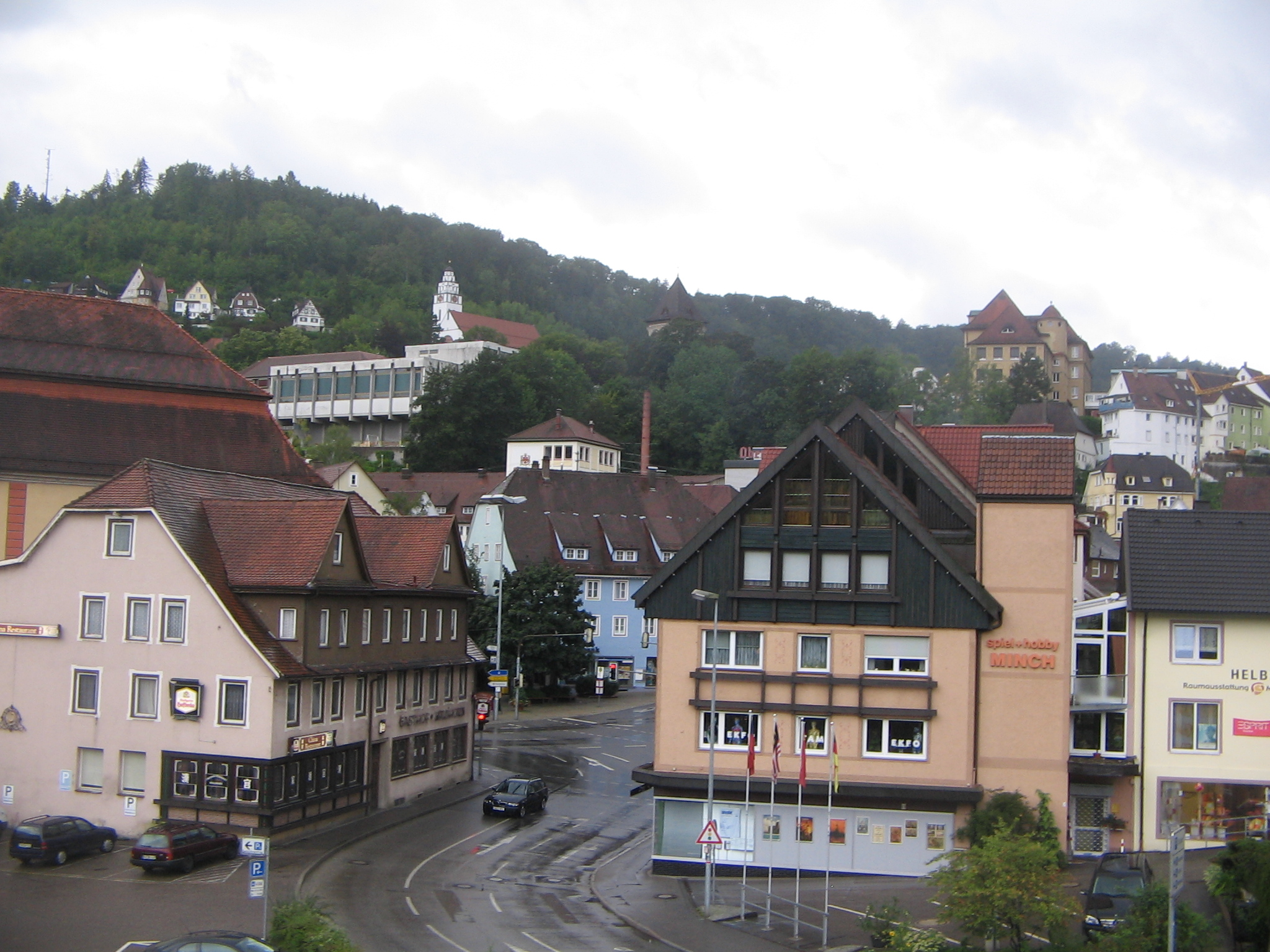 A view of the unterstadt of Oberndorf am Neckar, taken by me in August 2006.